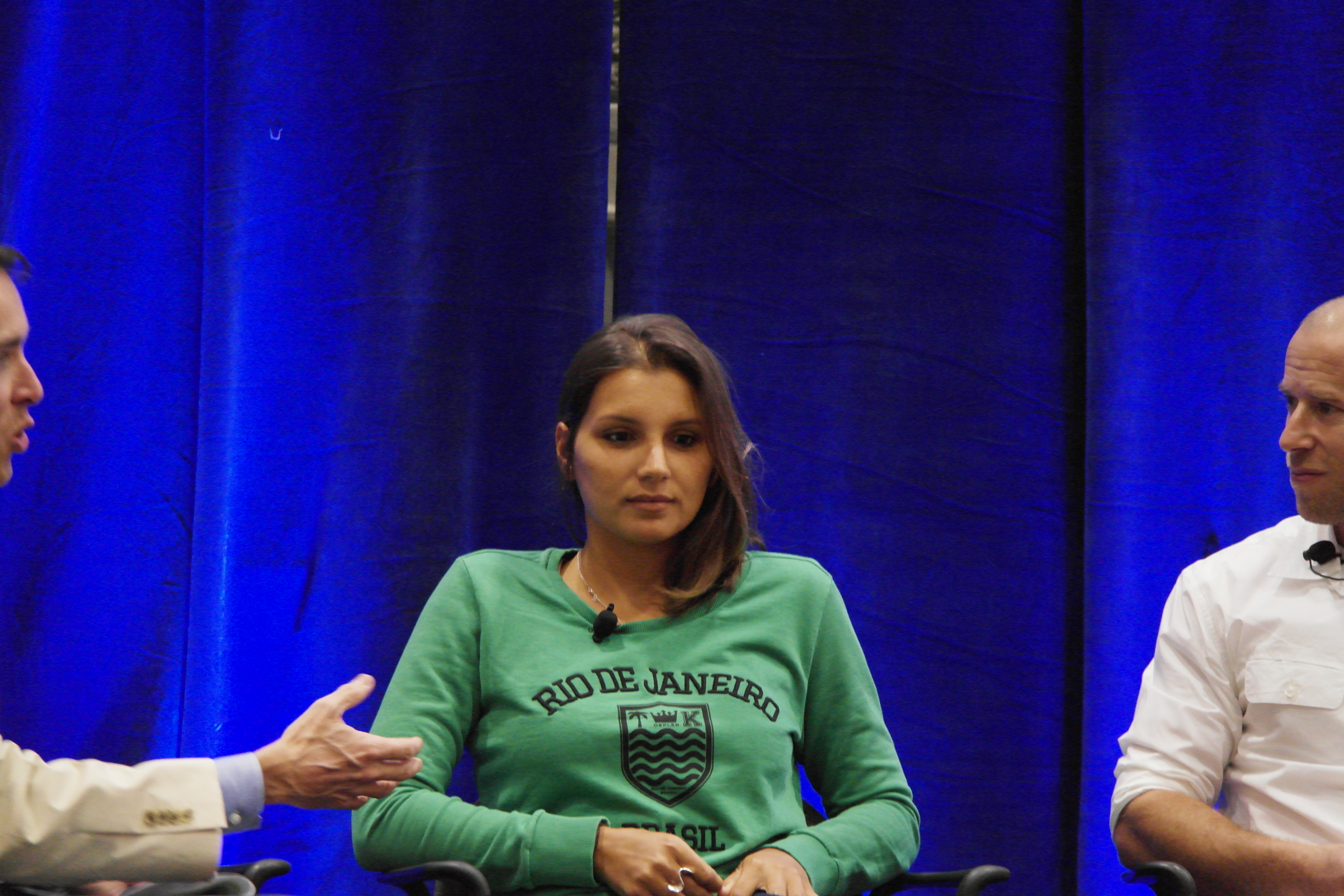 Usa science and engineering festival 2014 at Walter E Convention Center, DC